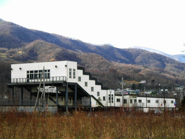 Hoshimi Station. Teine ward, Sapporo, Hokkaidō prefecture, Japan.